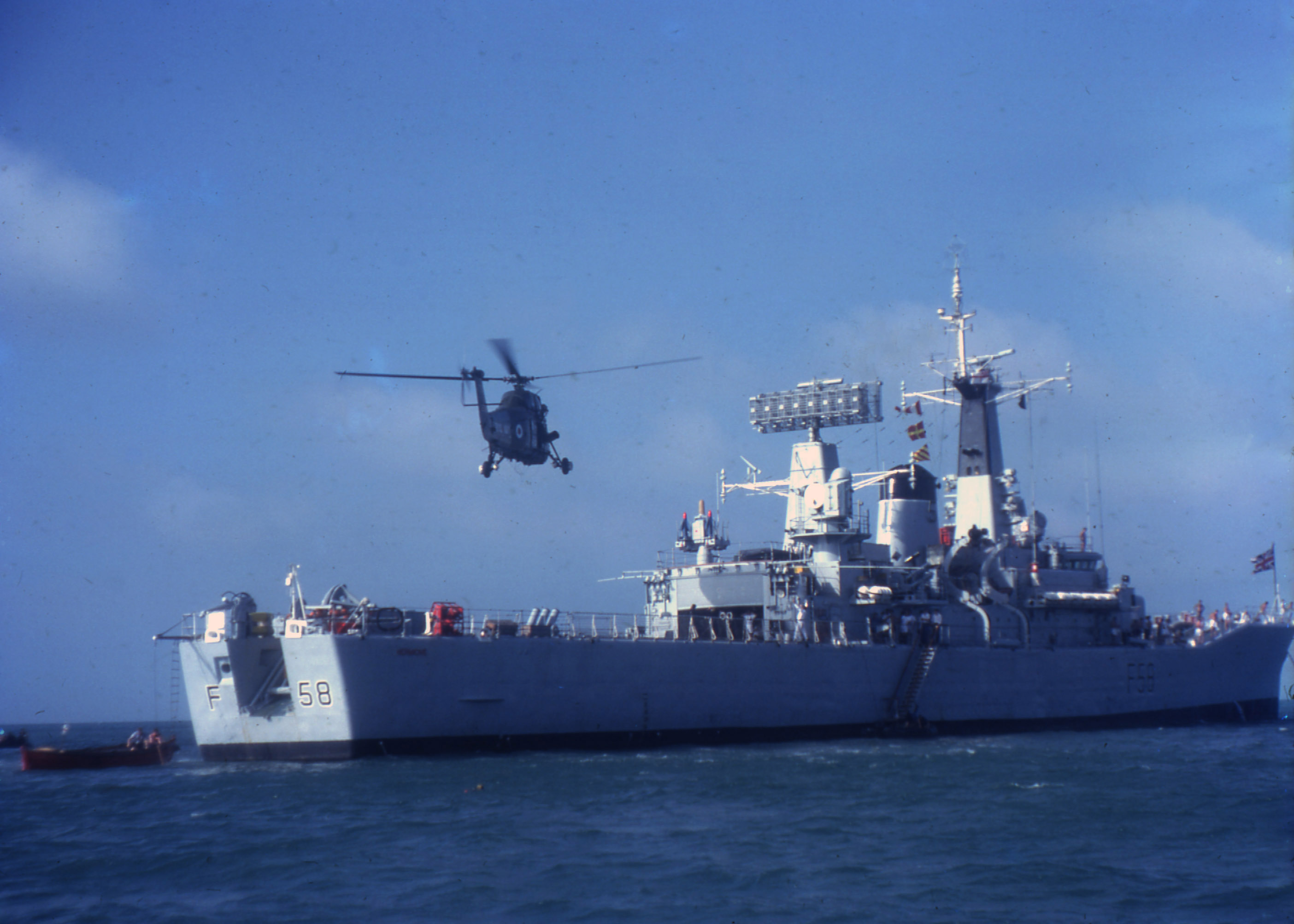 The Royal Navy frigate HMS Hermione (F58) off Key West, Florida (USA), in November 1978 with a Westland Wessex helicopter landing.